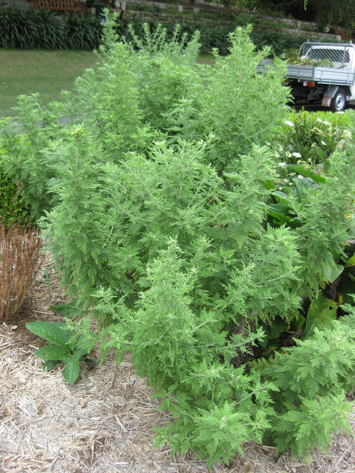 Photographed at the Royal Botanic Gardens Sydney (Australia) in January